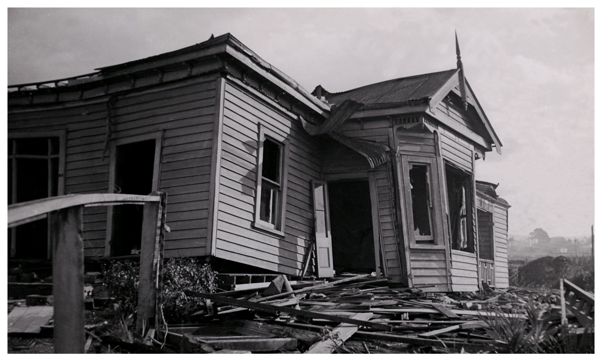 The deadliest tornado in New Zealand’s history hit the Hamilton suburb of Frankton on 25 August 1948. Three people were killed and eighty injured. The tornado destroyed or badly damaged 150 houses and caused more than £1 million of damage – approximately $70 million in today’s money. This photograph is one of thirteen showing tornado damage in Hamilton. A caption on the back of the photo states: ‘Lake Rd. House shifted approx. 20ft + turned round about 80°.’ The photos were taken for the Ministry of Work’s Housing Division. They form part of a series of 1055 state housing photographs dating from 1937-1952, which document the New Zealand Government's role in the construction of housing. Archives reference: AALF 6112/4 24/12 (R21645542) Additional caption information sourced from NZ History online - For updates on our On This Day series and news from Archives New Zealand, follow us on Twitter Material supplied by Archives New Zealand